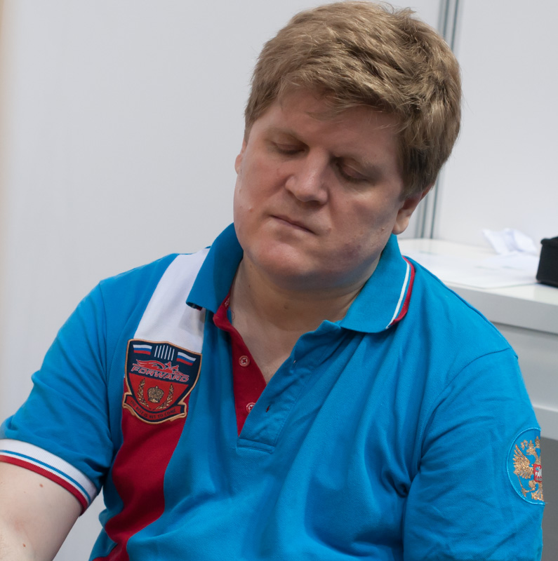 Russia Gromov